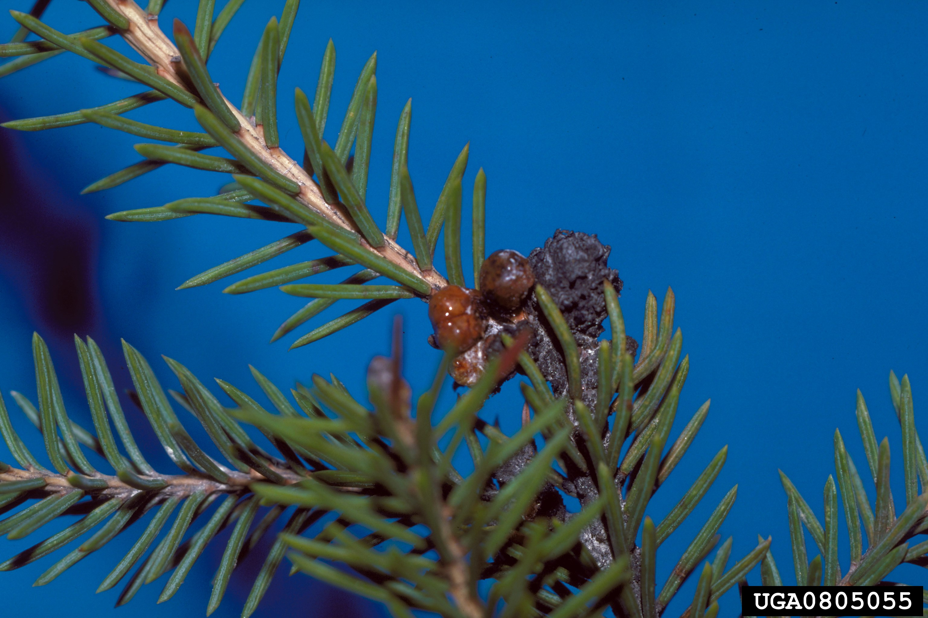 Physokermes piceae on white spruce